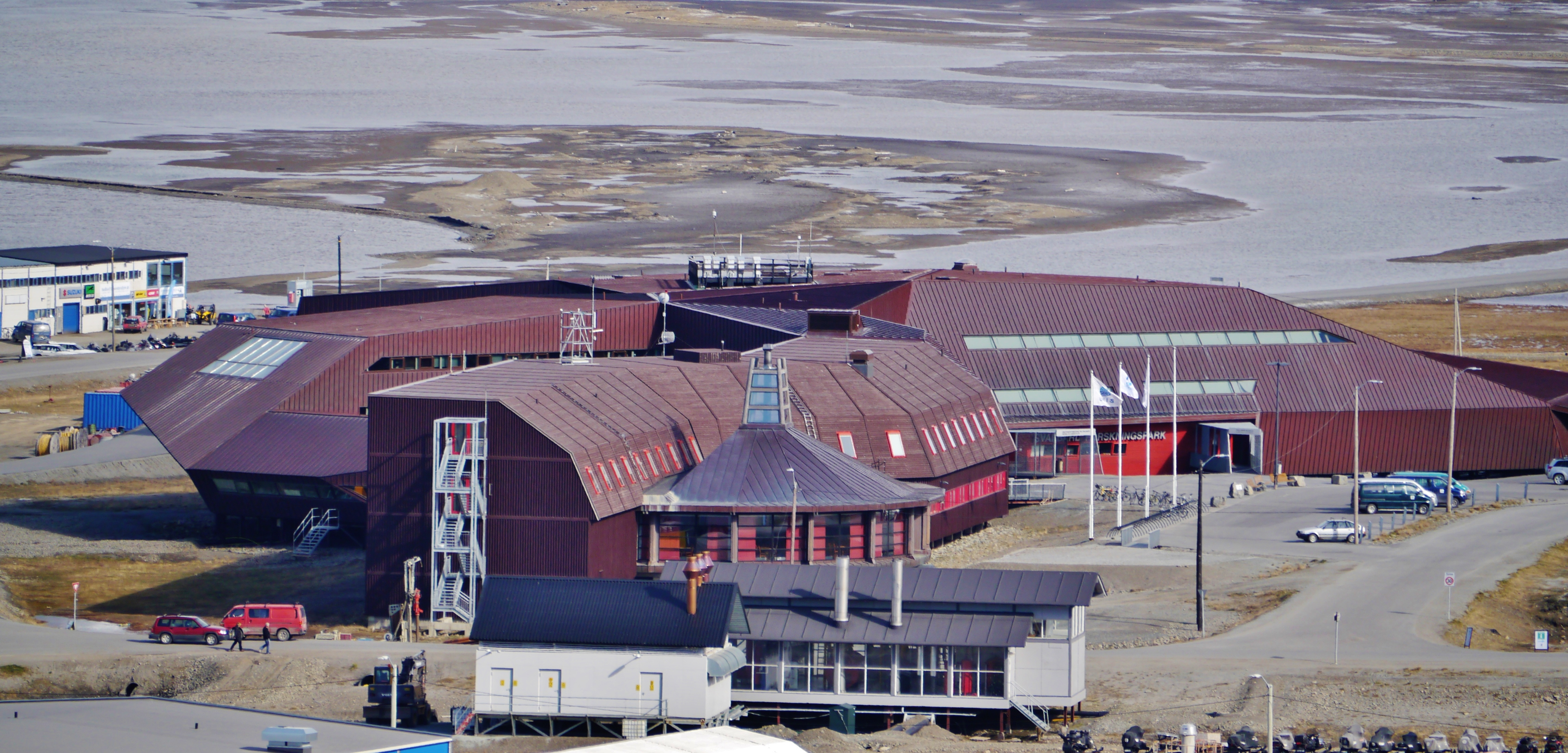 University Centre, Longyearbyen, Spitsbergen, Norway